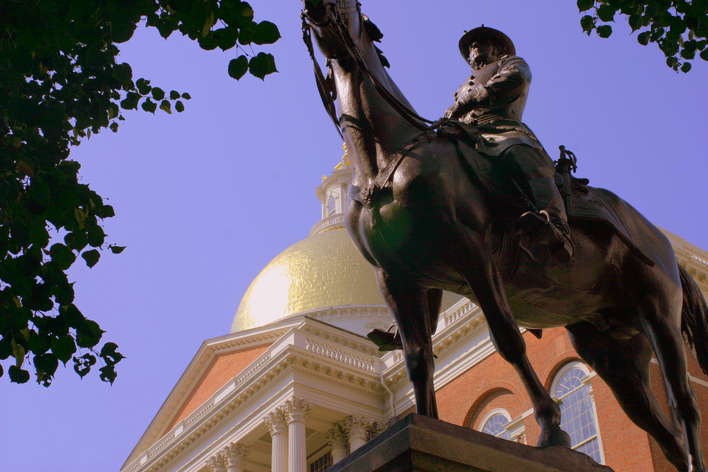 Equestrian statue of Joseph Hooker outside Massachusetts Statehouse.